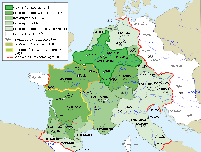 Map of the rise of Frankish Empire, from 481 to 814.